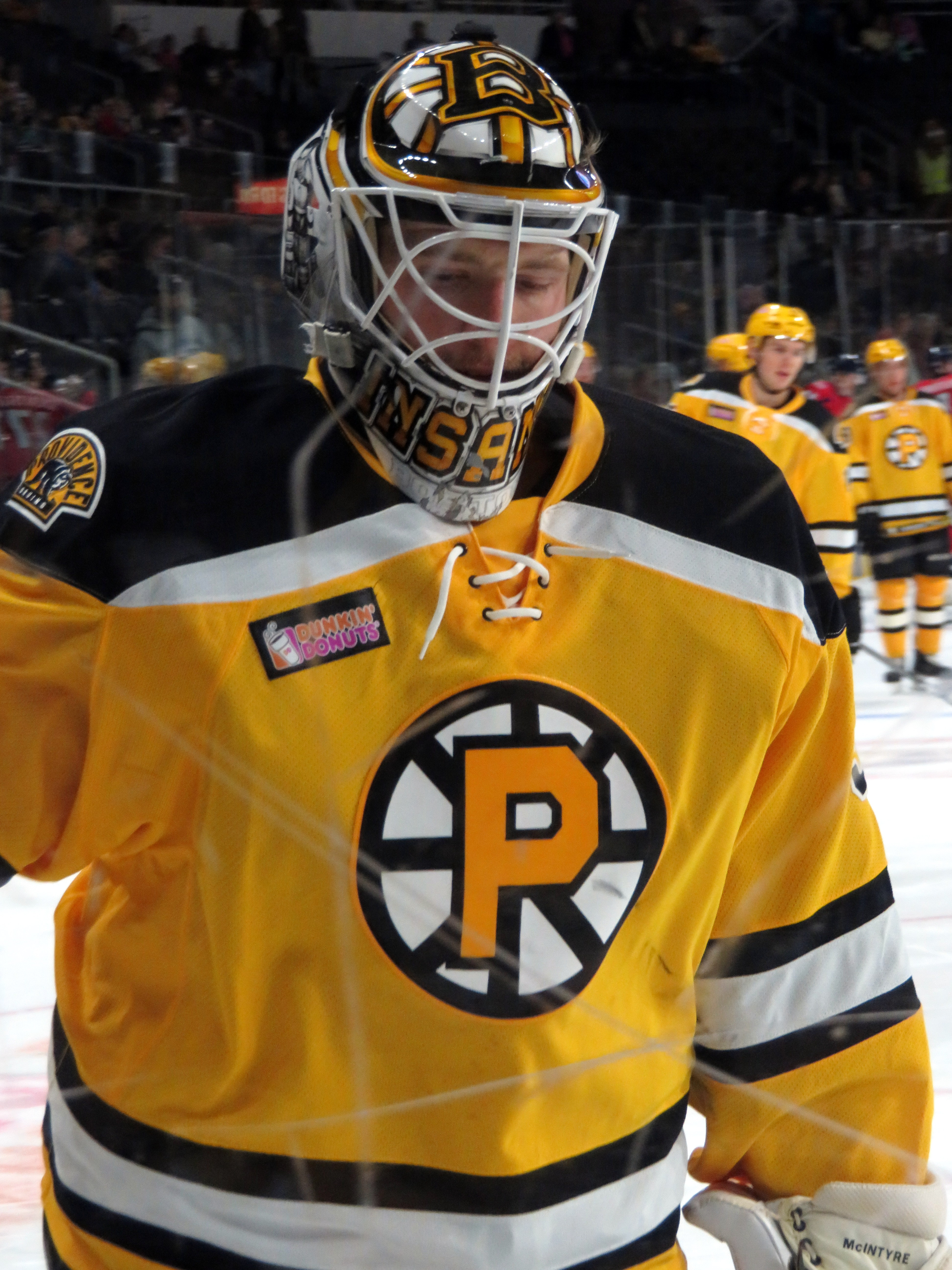 Zane McIntyre Providence Bruins (2017)